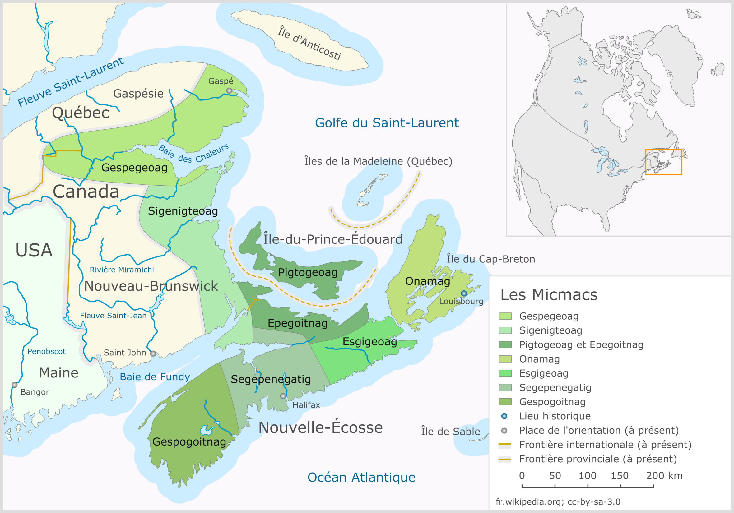 Former settlement areas of the seven Mi'kmaq branches